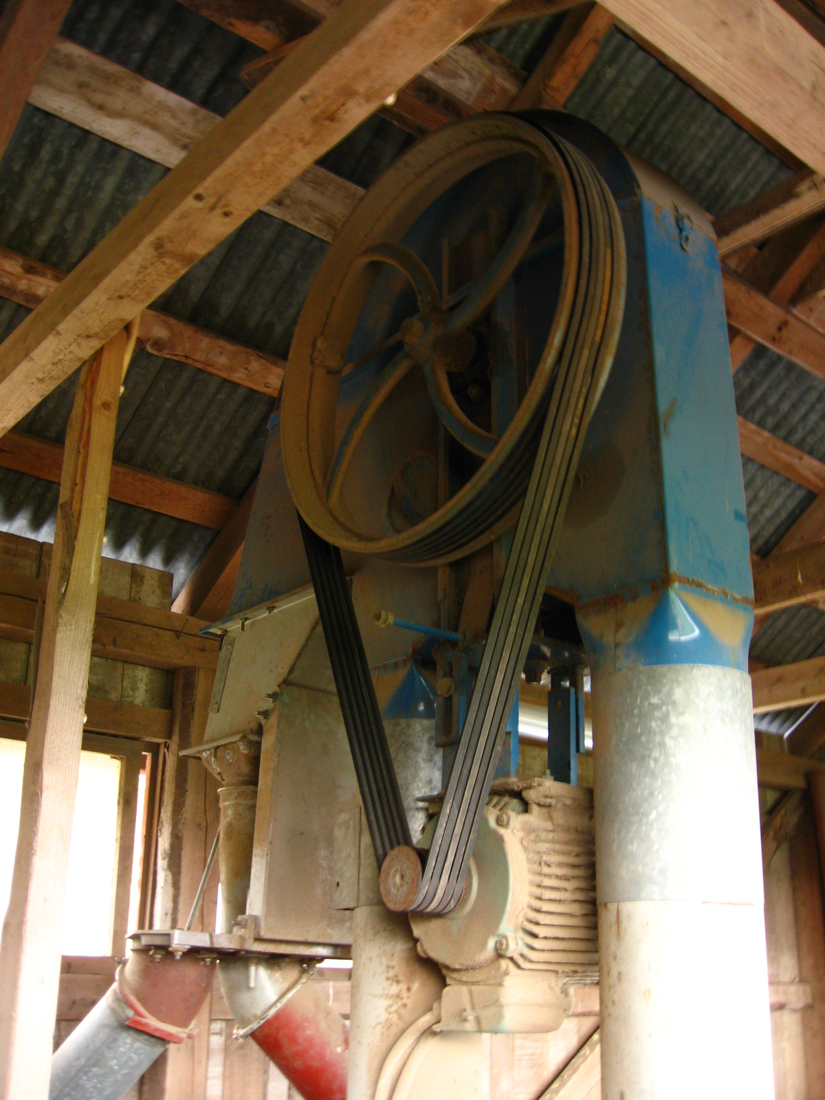 V-belt